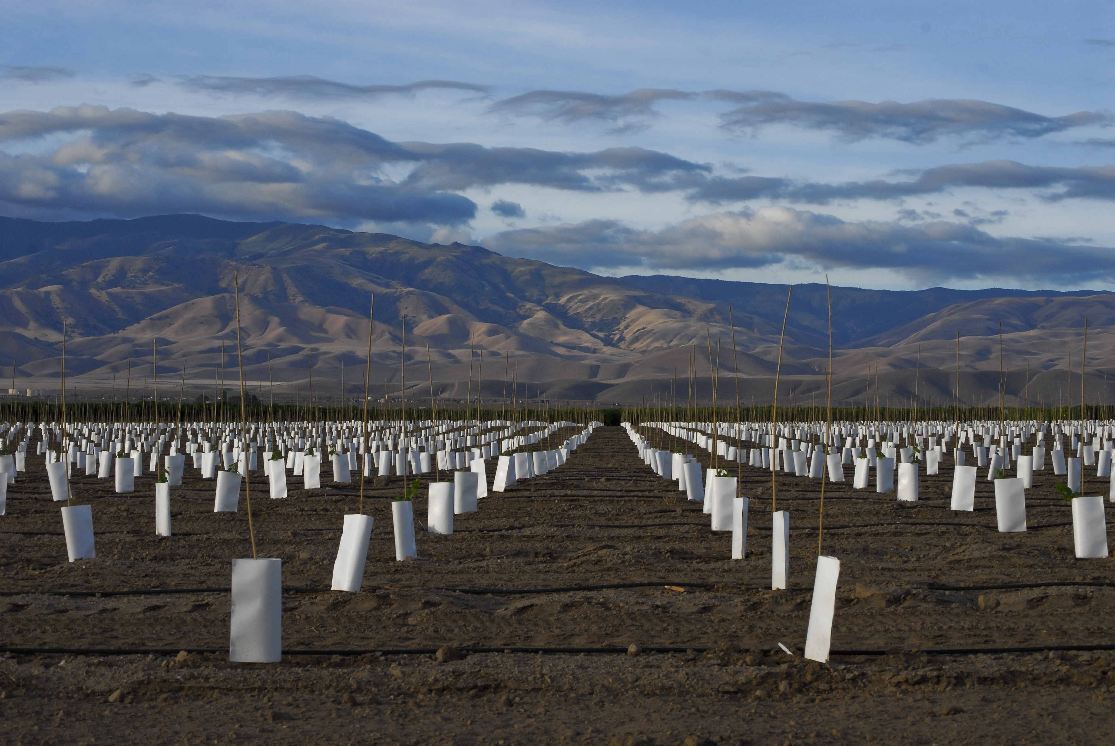 New Orchard on Hwy 33 San Luis Obispo County